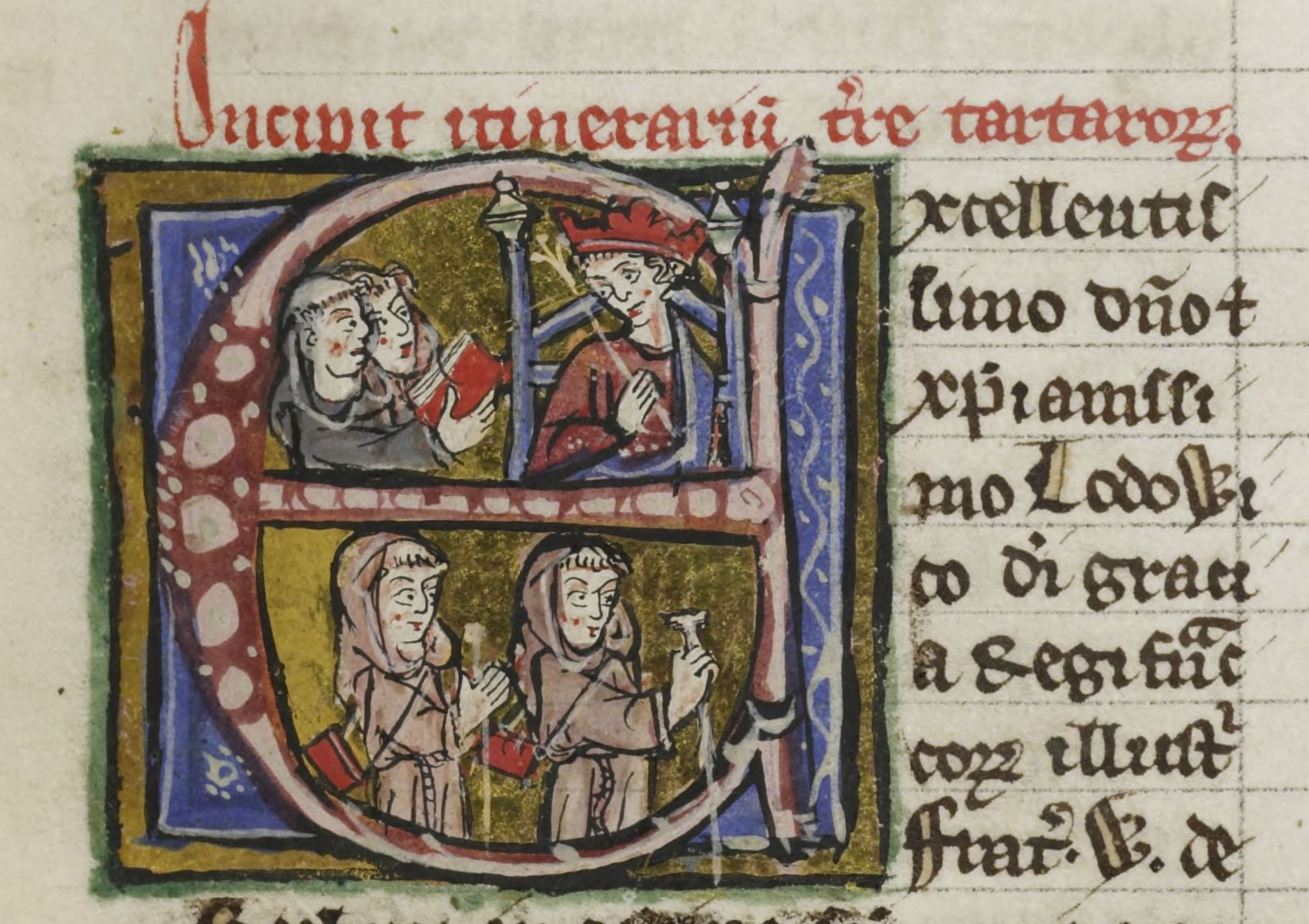 An illuminated initial from an early 14th century manuscript copy of Friar William of Rubruck's Itinerarium. The upper portion shows William of Rubruck and his travelling companion with Louis IX of France. The friars are either receiving a commission from the French king (Jackson & Morgan 1990, Frontispiece) or presenting their report (Beazley 1903, p. xviii). The lower portion shows the two friars on their journey.